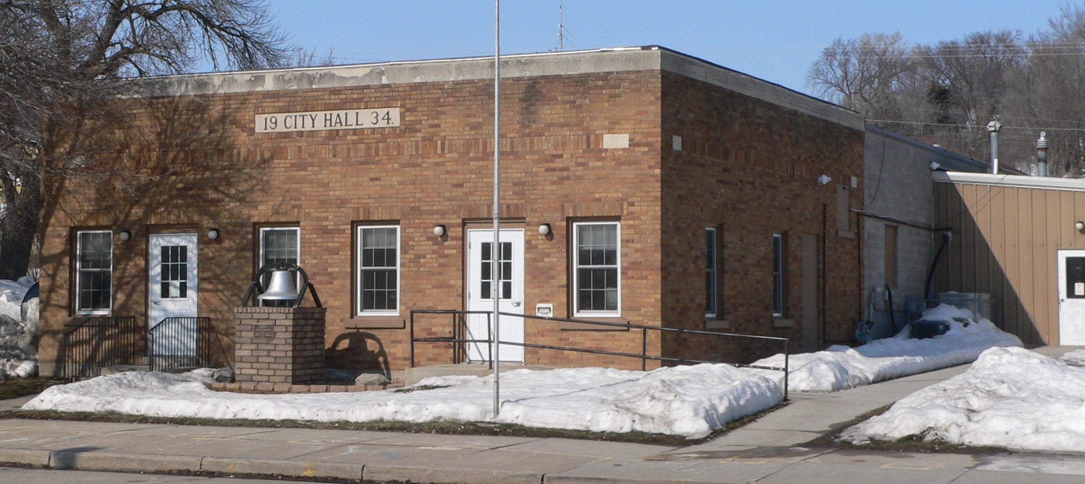 City Hall, located at northeast corner of 3rd and Nebraska Streets in Ponca, Nebraska. This block of 3rd is part of the Ponca Historic District, which is listed in the National Register of Historic Places.